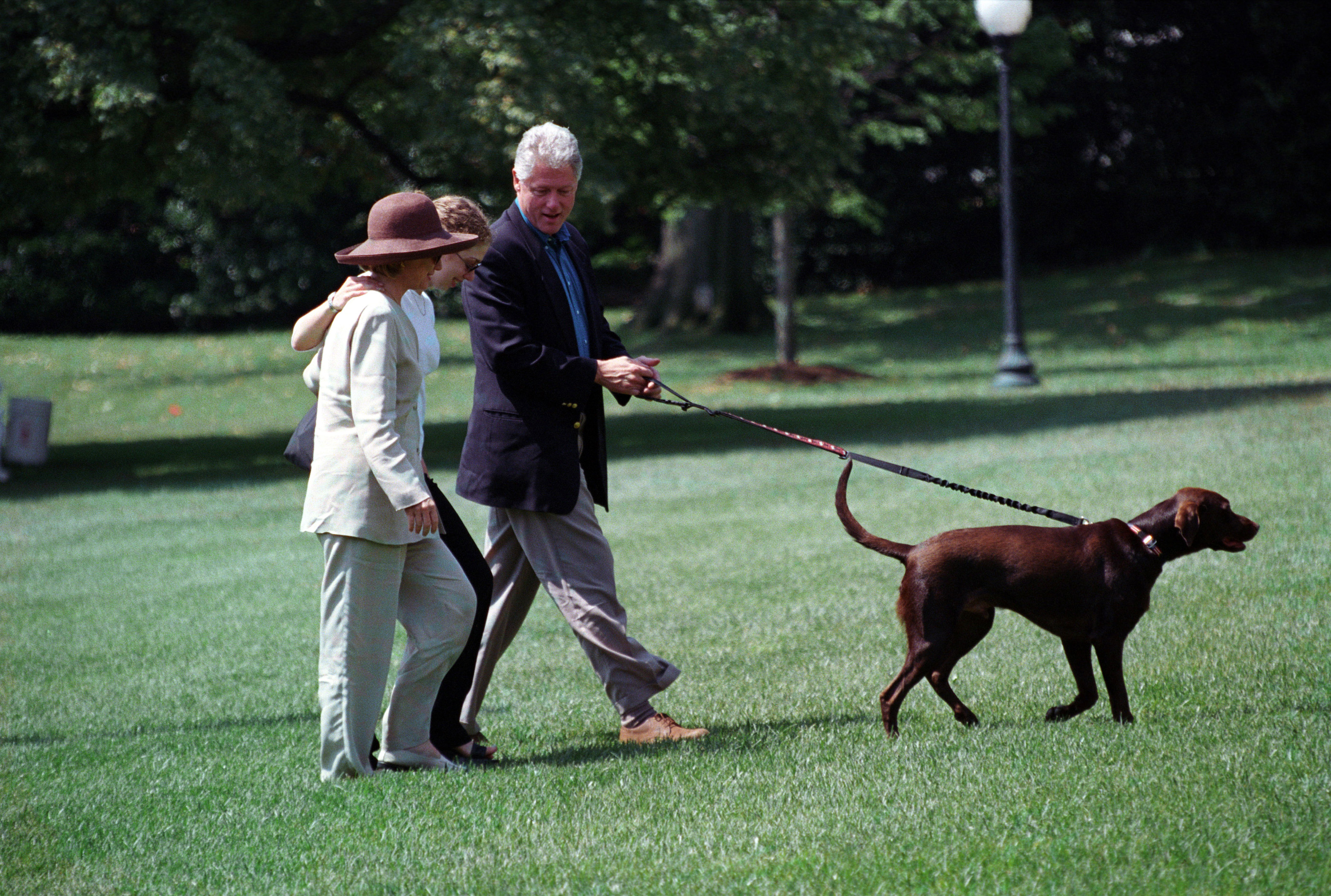 Title: Photograph of President William Jefferson Clinton and First Lady Hillary Rodham Clinton with Buddy the Dog at the White House: 08/30/1998 Creator: President (1993-2001 : Clinton). White House Photograph Office. (01/20/1993 - 01/20/2001) Types of Archival Materials: Photographs and other Graphic Materials Contacts: William J. Clinton Library (NLWJC), 1200 President Clinton Avenue, Little Rock, AR 72201. Phone: 501-244-2877; Fax: 501-244-2881; Production Dates: 08/30/1998 From: Series: Photographs Relating to the Clinton Administration, compiled 01/20/1993 - 01/20/2001 Collection WJC-WHPO: Photographs of the White House Photograph Office (Clinton Administration), 01/20/1993 - 01/20/2001 Persistent URL: Access Restriction(s): Unrestricted Use Restriction(s): Unrestricted